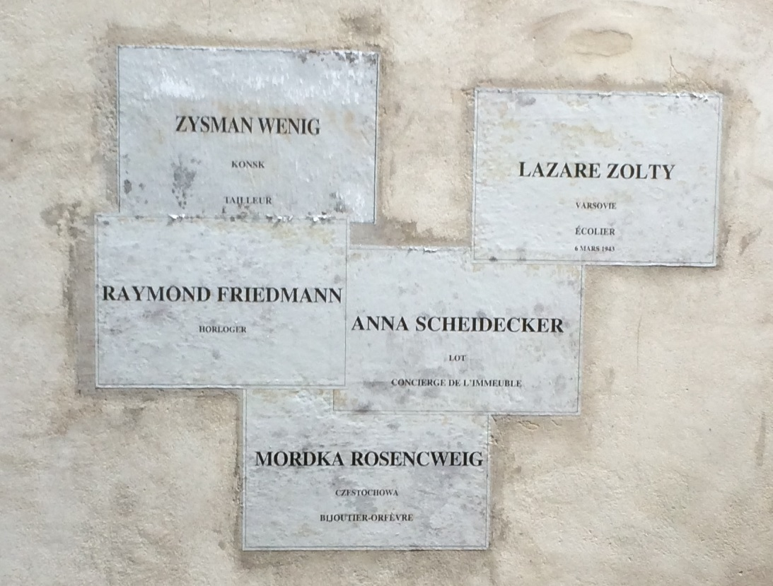 Les habitants de l'hôtel de Saint-Aignan en 1939, mural art by Christian Boltanski - Musée d'art et d'histoire du Judaïsme, Paris